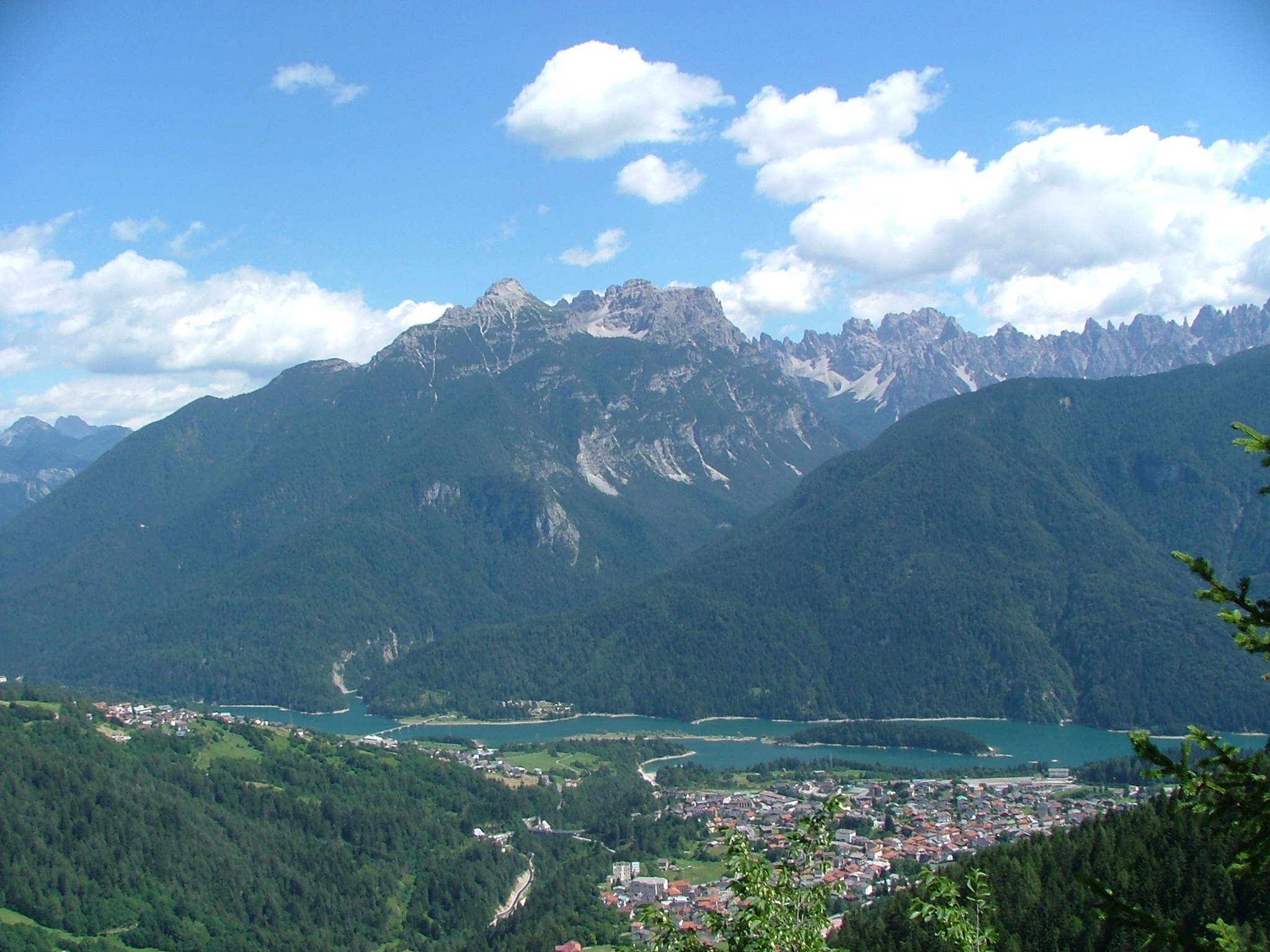 Calalzo di Cadore panorama